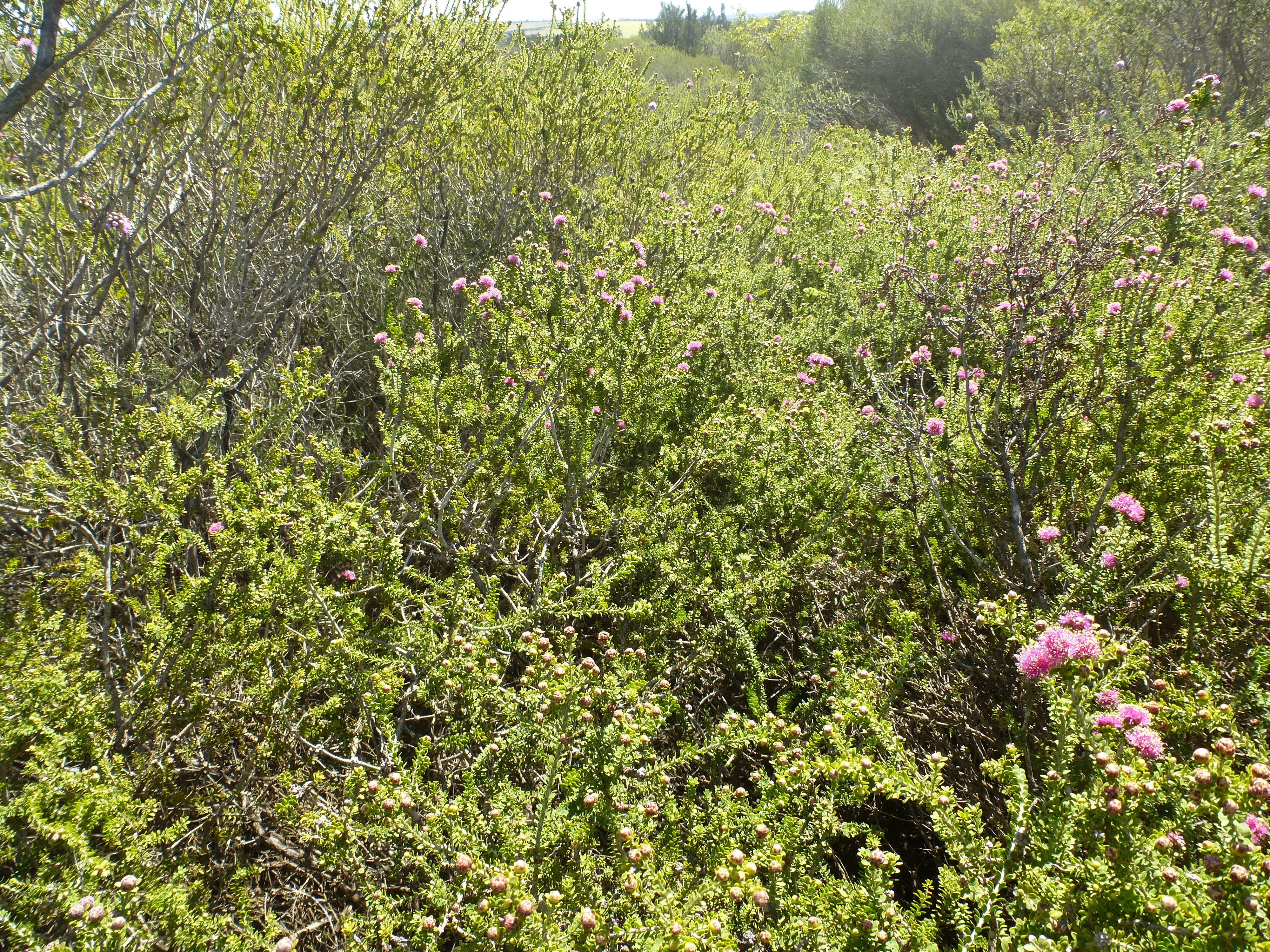 Melaleuca amydra 25km N of Eneabba